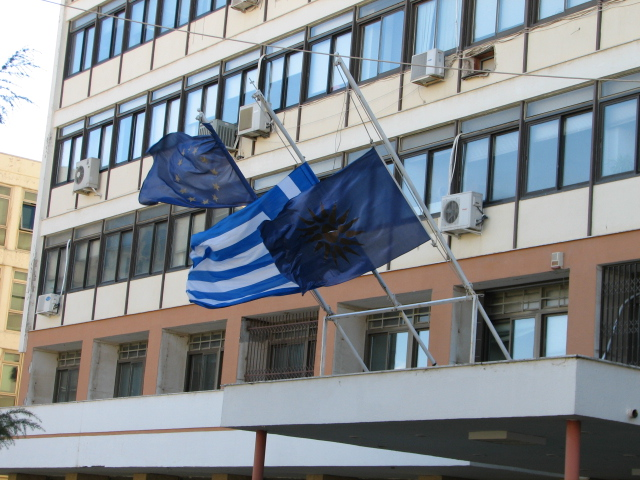 Megistias is the creator of this work.